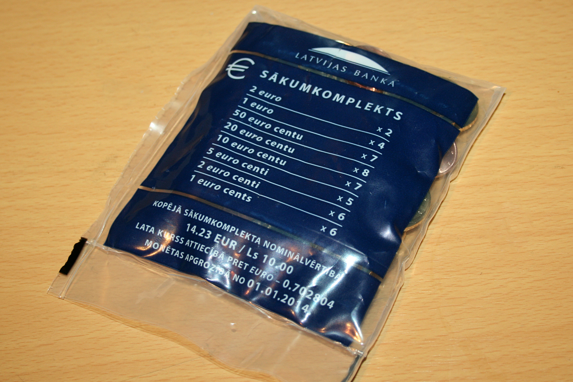 Latvia euro starter kit